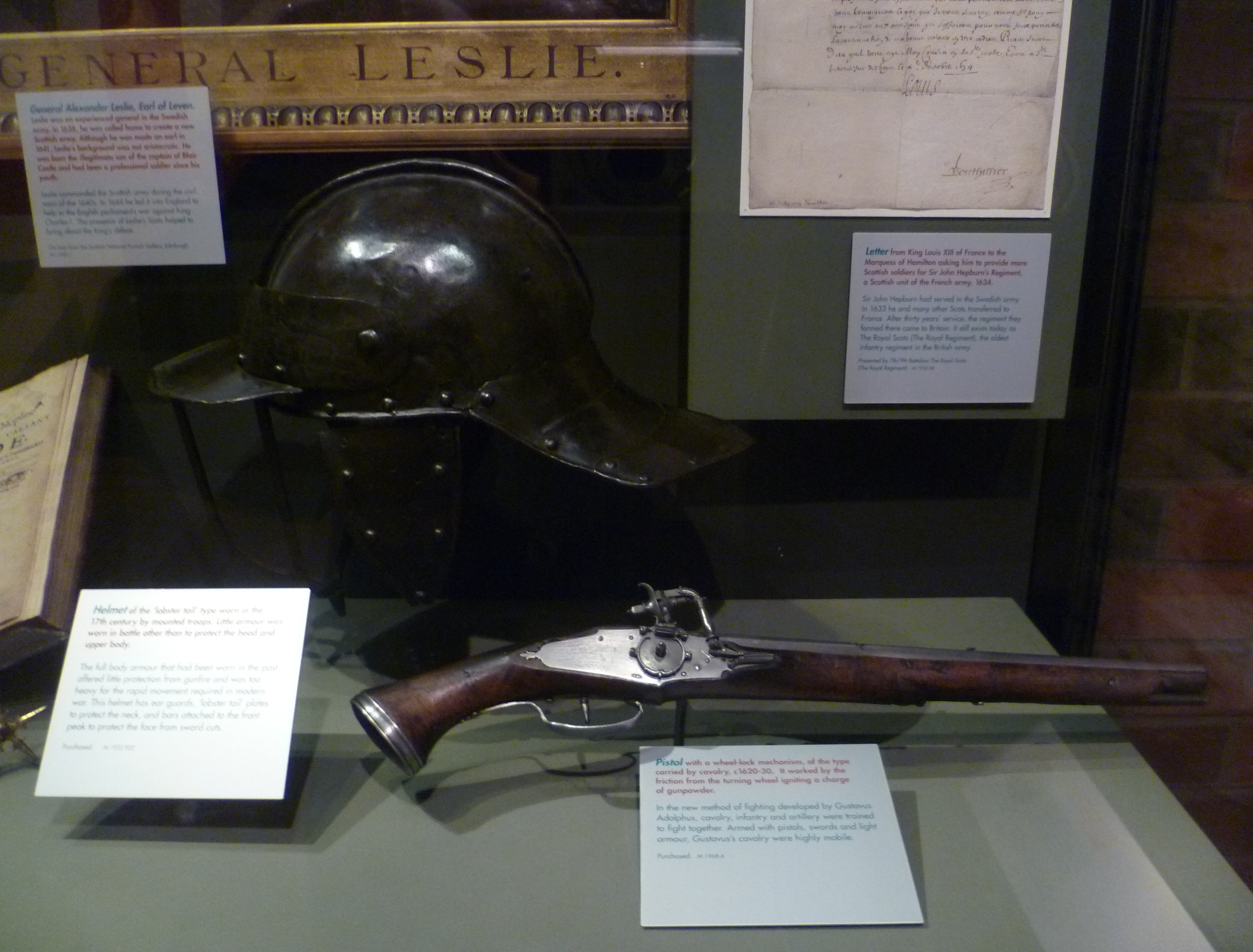 Part of a dragoon's equipment from the period of the British civil wars. National War Museum, Edinburgh Castle.